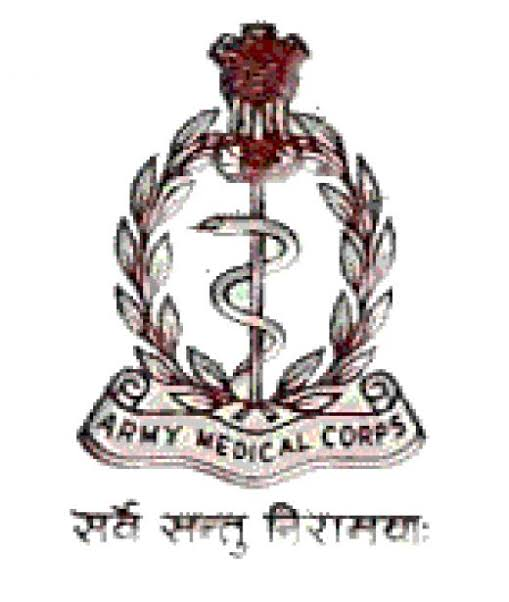 Army Medical Corps Logo